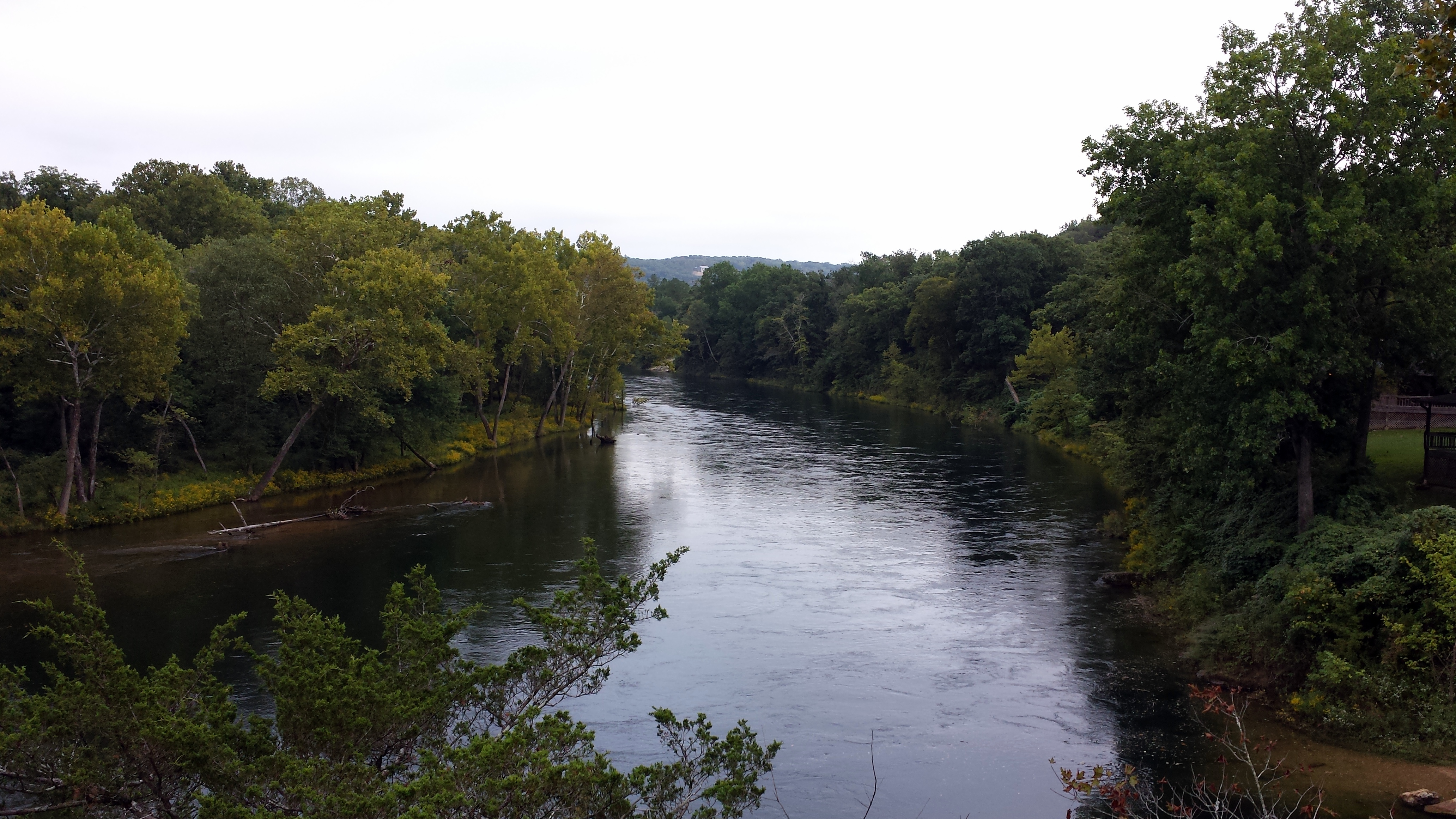 Confluence of White River and Spider Creek in Madison Co, AR